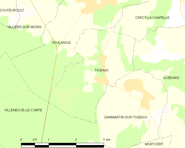 Map of French municipality Tigeaux